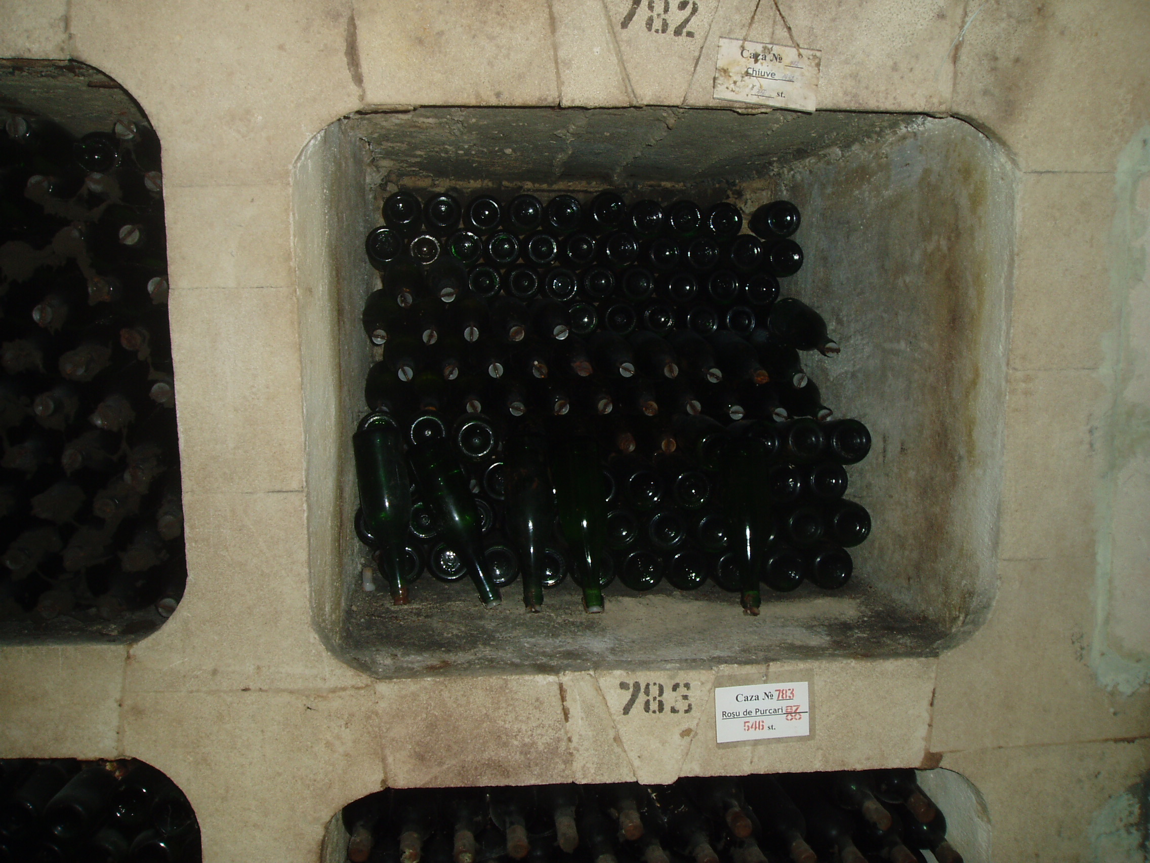 This is going to become sparkling wine made using the traditional Champagne method, producing "brut" sparkling wine. In the cellars of Milestii Mici outside Chisinau, Moldova.